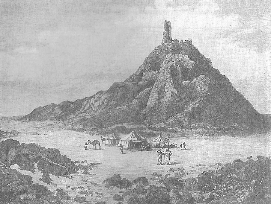 Birs Nimrud hill photo.